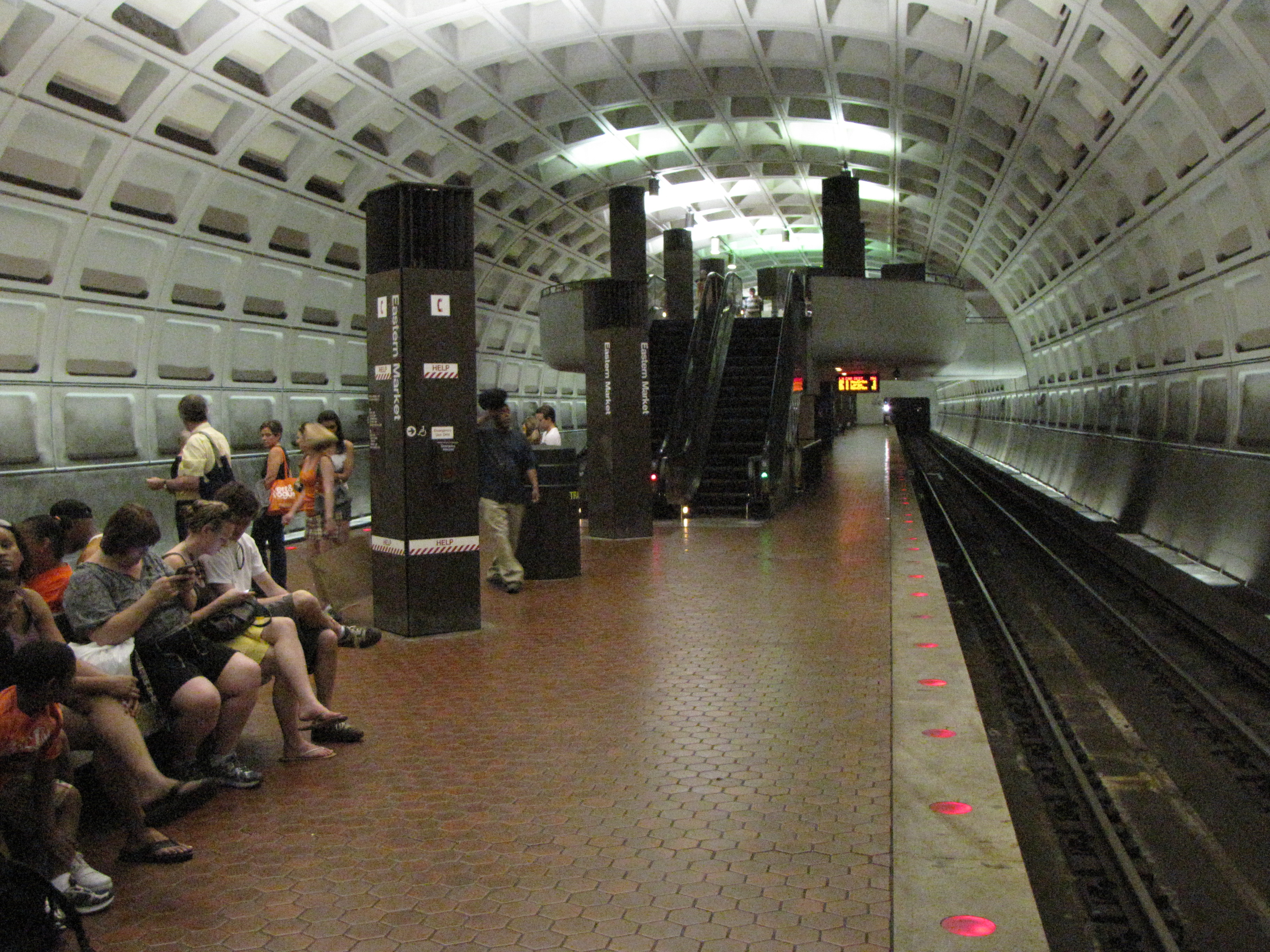 Eastern Market station, facing the mezzanine, seen from the inbound end of the station.